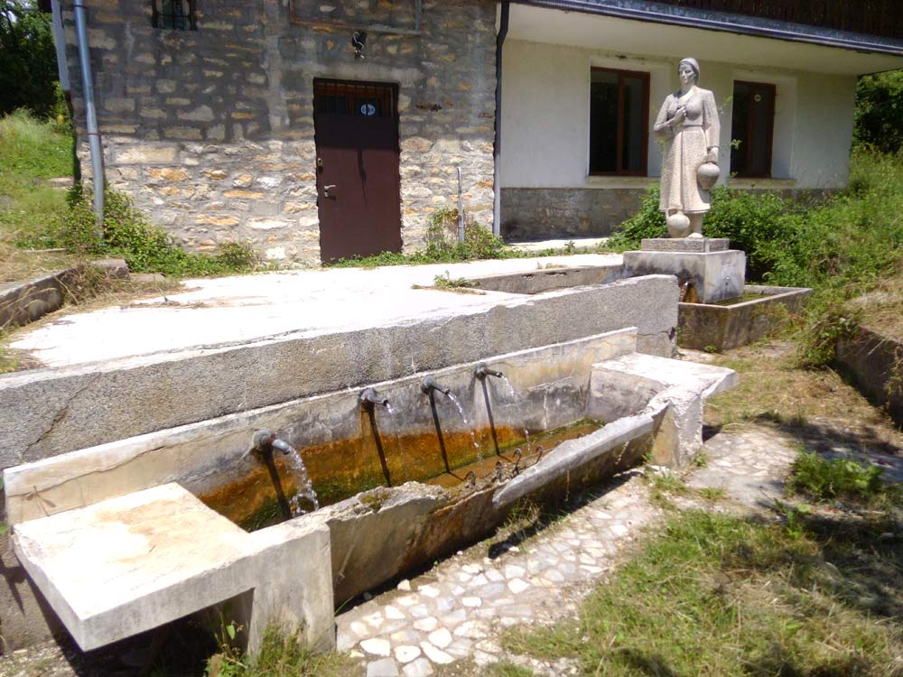 Изворът Гергана